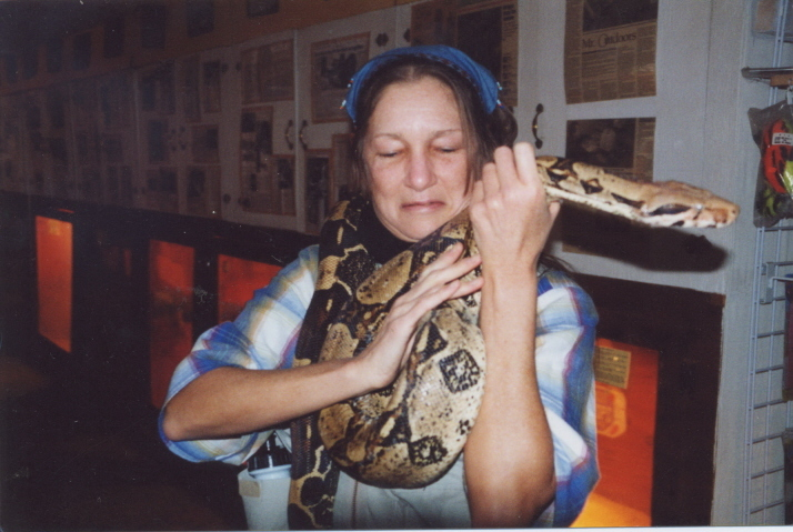 A visitor (Jamie Townsend) holds a boa constrictor at Hart's Reptile World, Canby, Oregon, 2003.